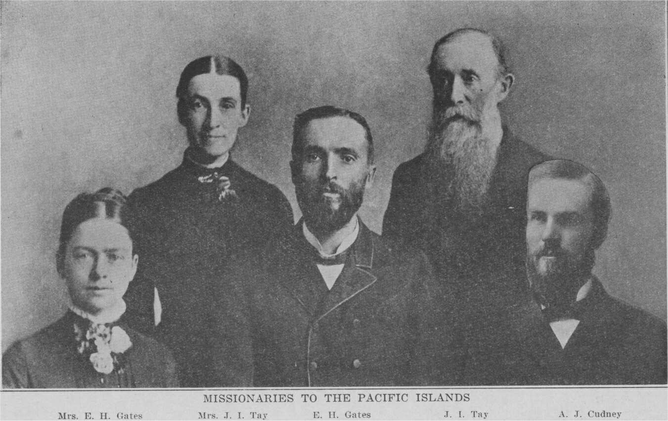 Seventh Day Adventist missionaries to the Pacific Islands, before 1889. Left to right Mrs. E.H. Gates, Mrs. J.I. Tay, E.H. Gates, John I. Tay, A.J. Cudney.